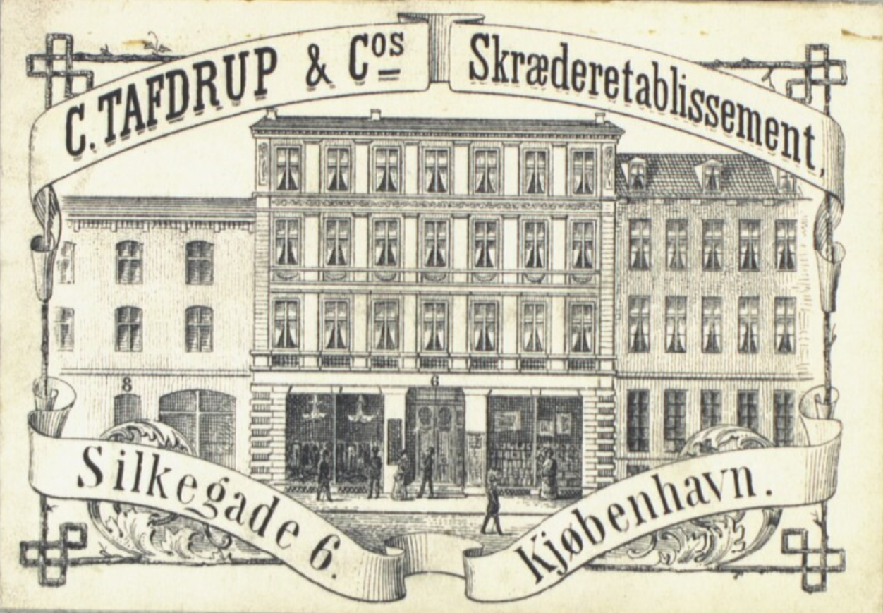 C, Tafdrup & Cos Skræderetablissement at Silkegade 6 in Copenhagen, Denmark